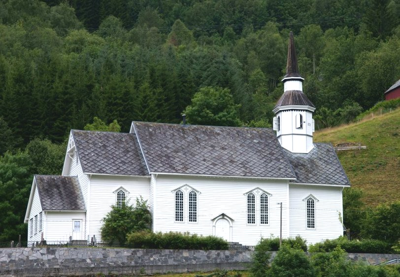 Sunnylven church, 1859 long church, Stranda municipality, cropped original